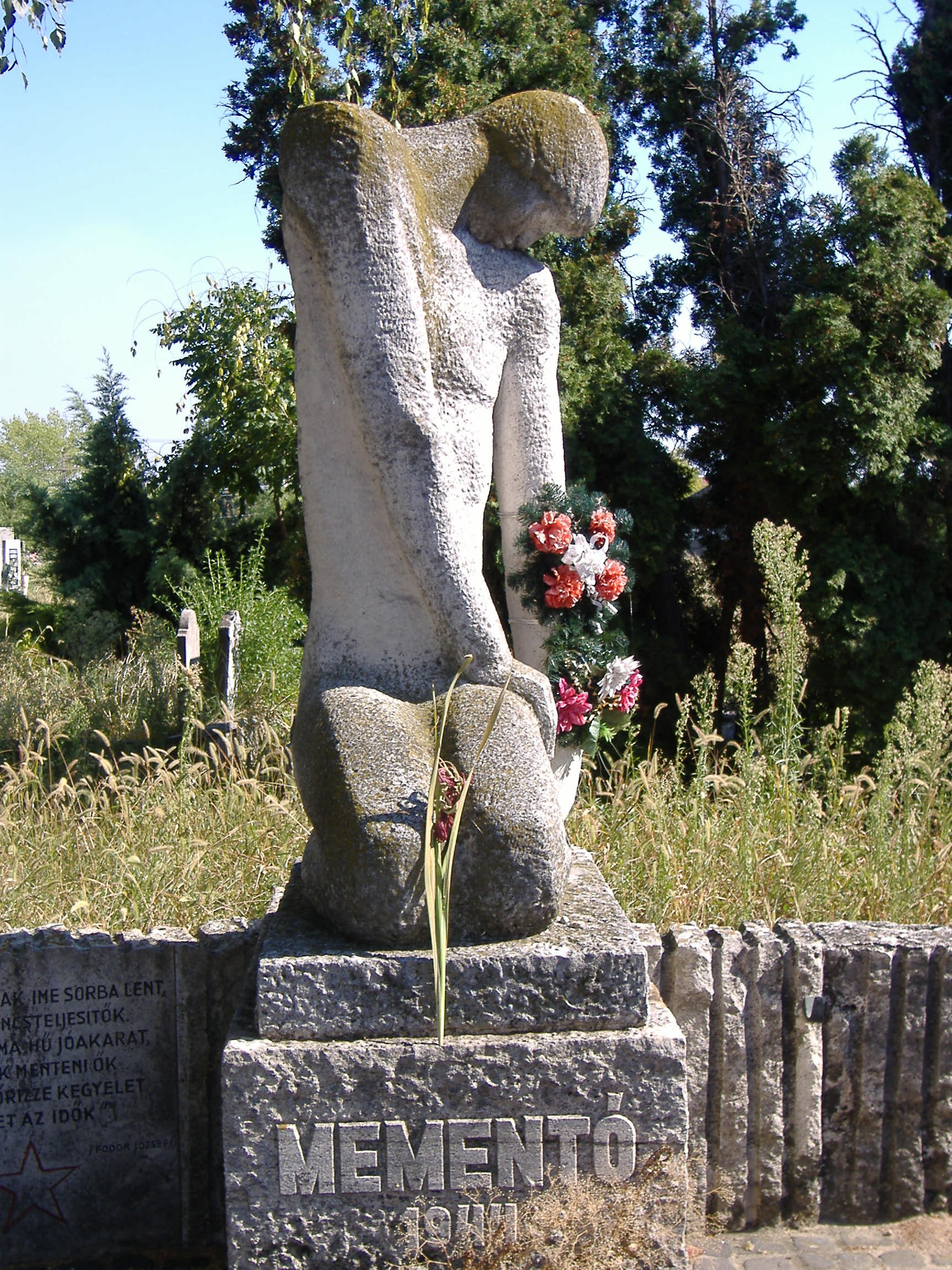 Memento statue in Makó, Hungary, commemorating to Soviet soldiers fallen in the Second World War in the town.